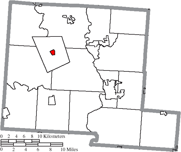 Map of the municipal and township boundaries of Pickaway County, Ohio, United States, as of the 2000 census, with the location of the village of Darbyville highlighted. Township borders are shown only in unincorporated areas in order to differentiate incorporated and unincorporated areas more clearly.